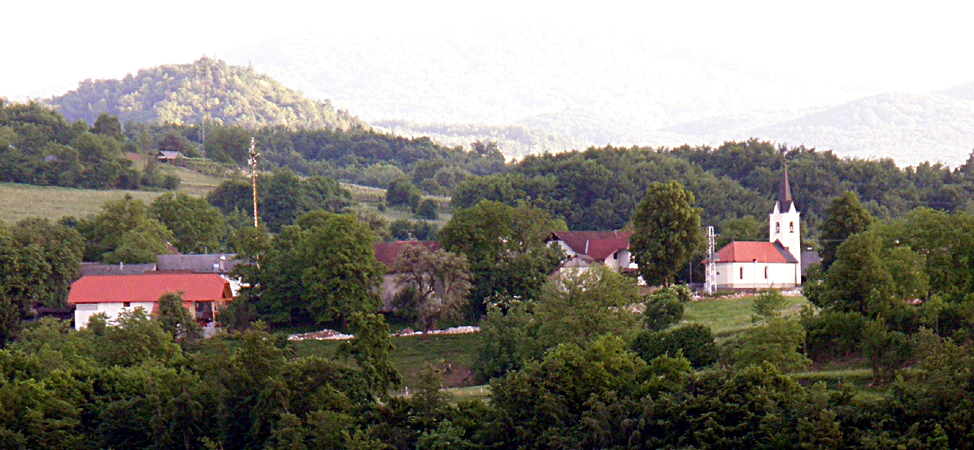 Gornja Težka voda, a village in southeastern Slovenia (the City Municipality of Novo Mesto), with St. Urban's Church. View from Verdun.